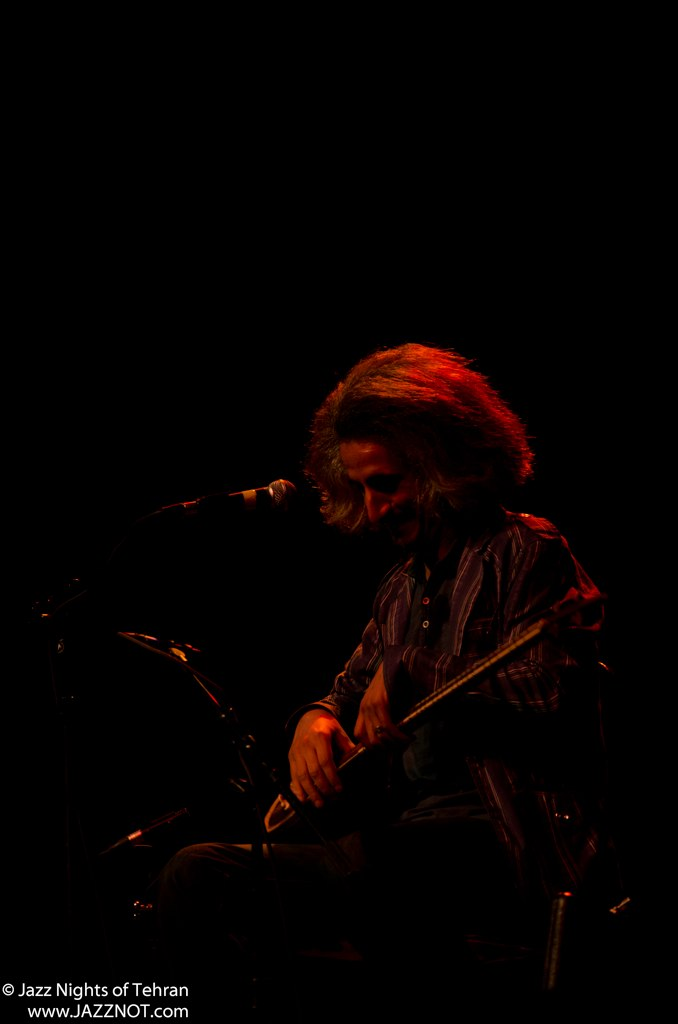 Atlanta- Mohsen Namjoo - (63 of 124)